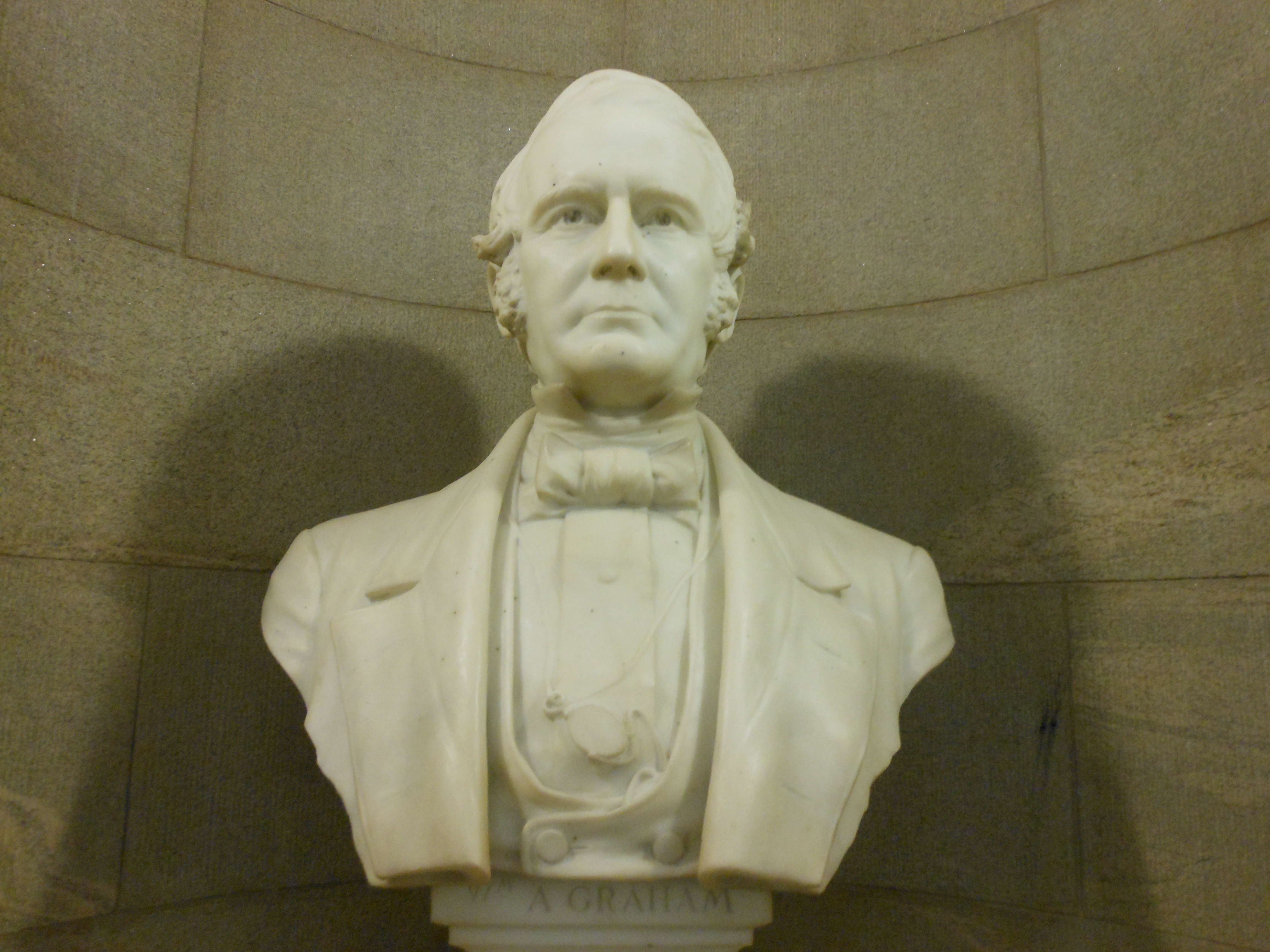 William Alexander Graham Bust